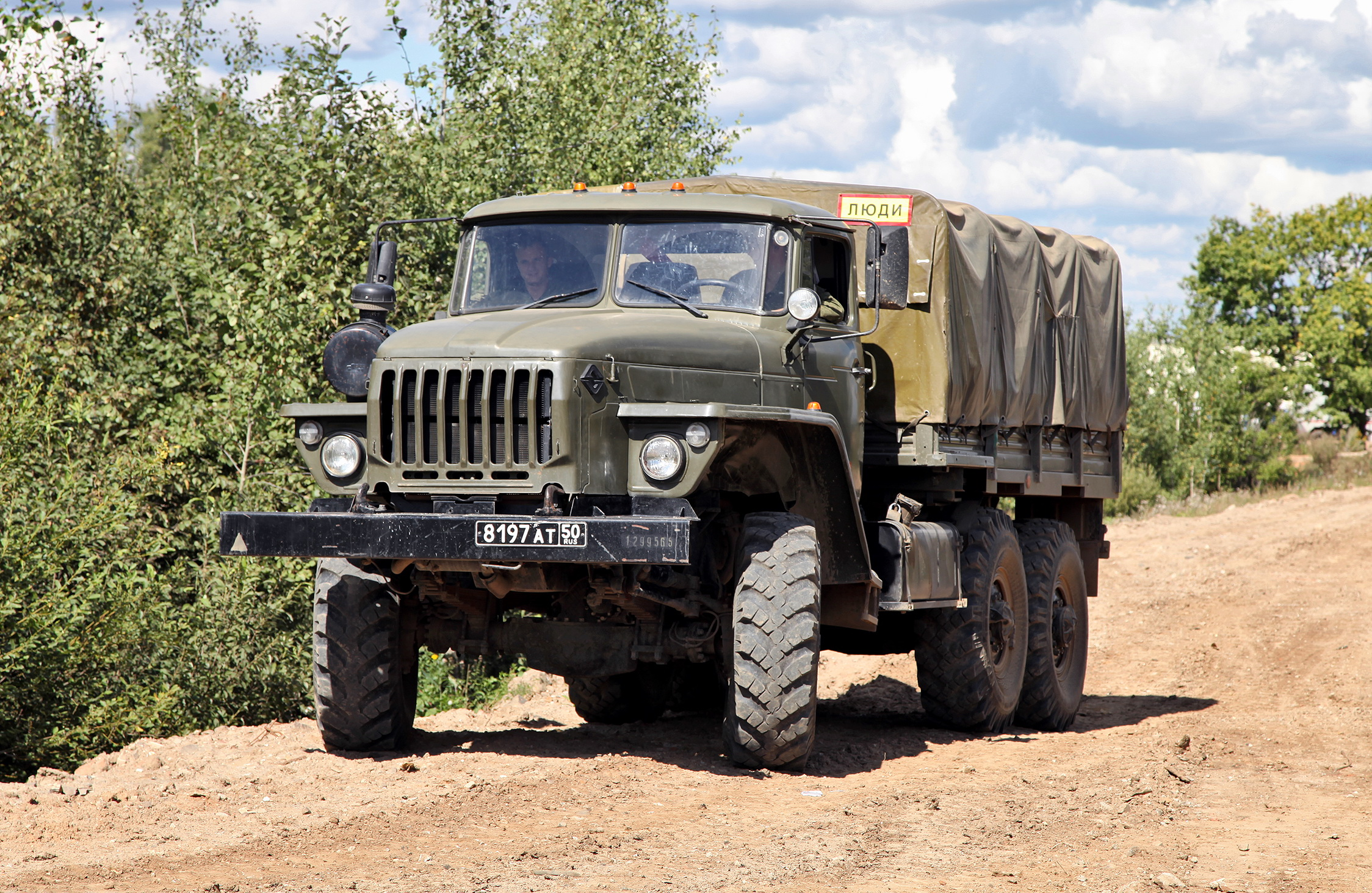 Ural-4320